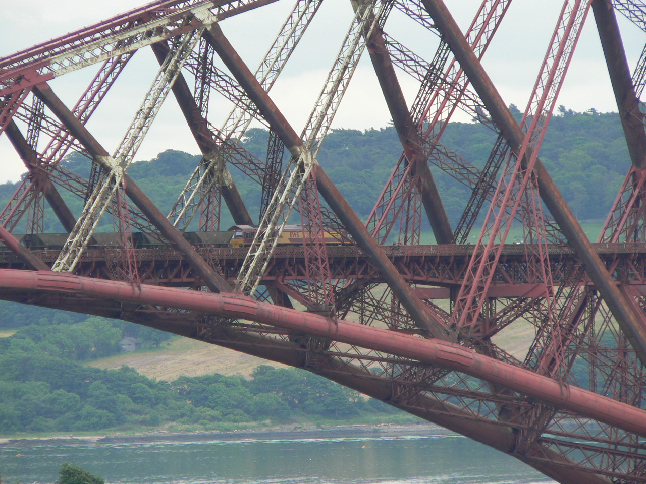 A southbound freight service over the Forth Rail Bridge hauled by an EWS Class 66 locomotive (number 66xx4).